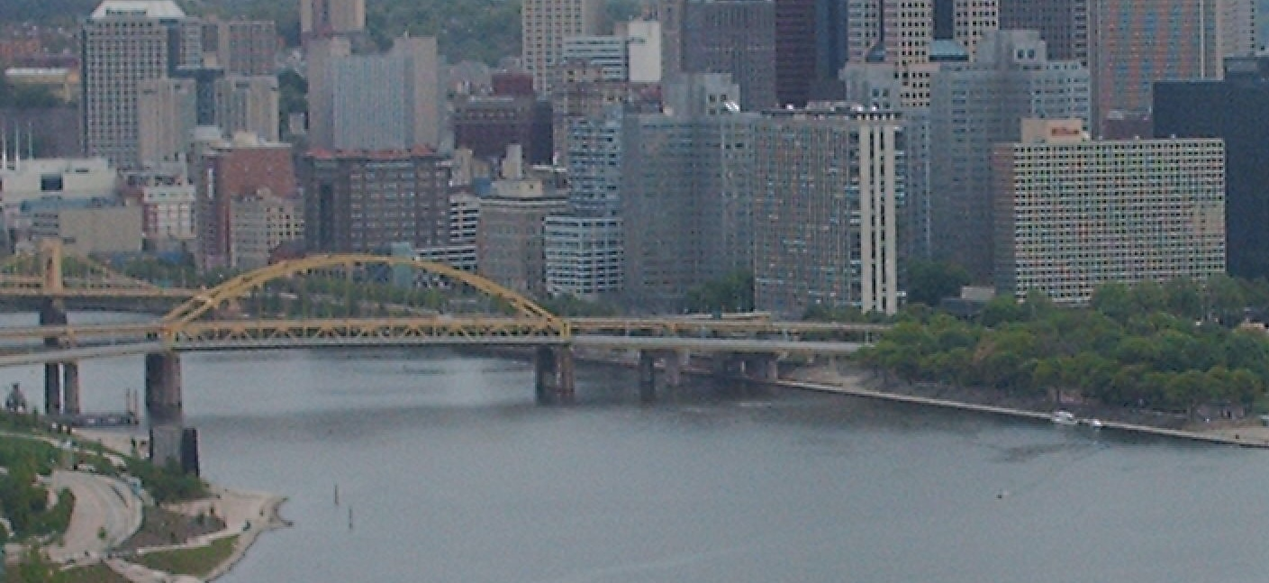 Fort Duquesne Bridge from West End Overlook Jim Keener (no src URL. From private library)